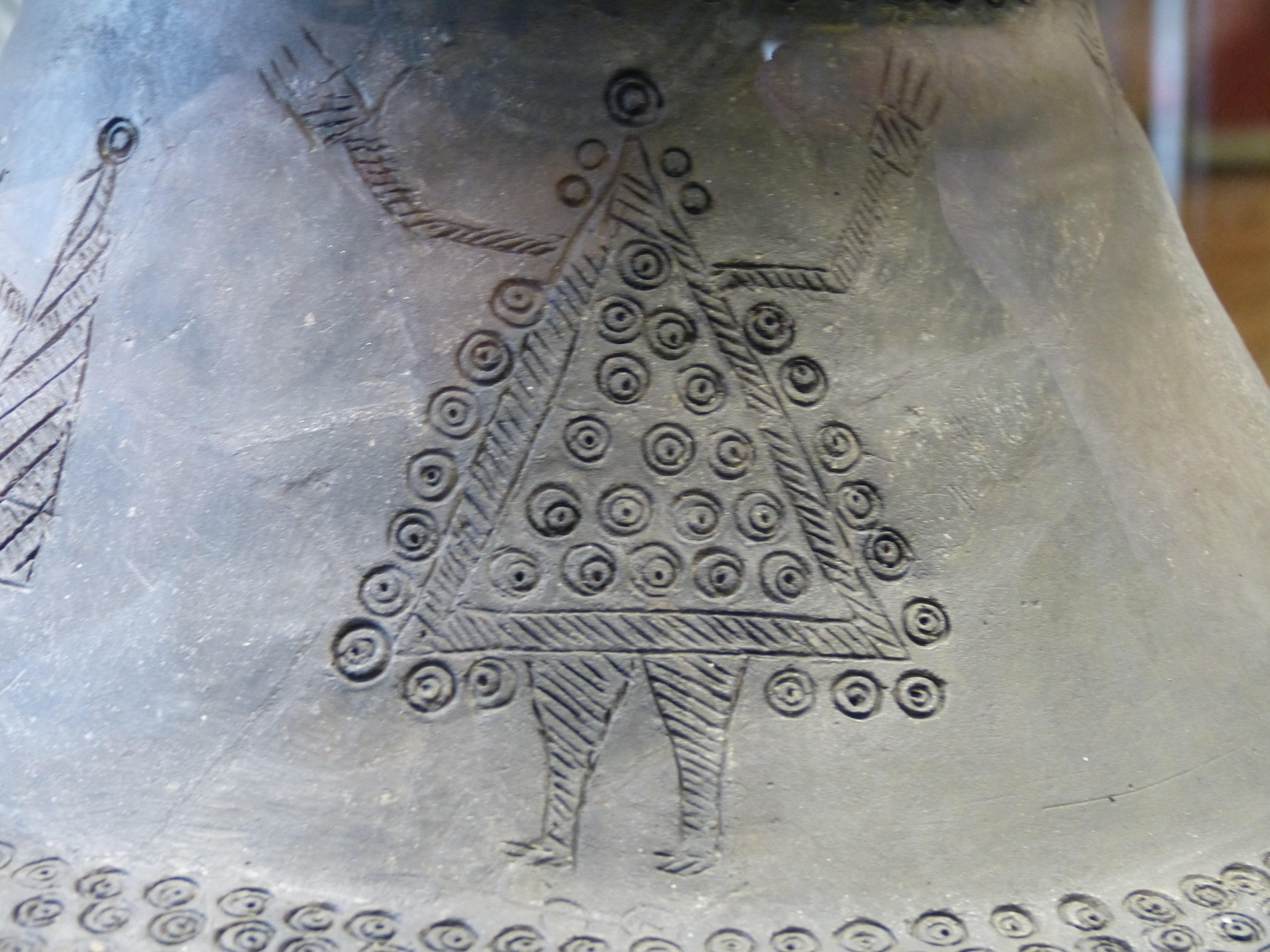 Natural History Museum, Vienna ( Austria ). Hallstatt culture pottery ( 7th century BC ) from Sopron ( Hungary ) - detail: Dancer.